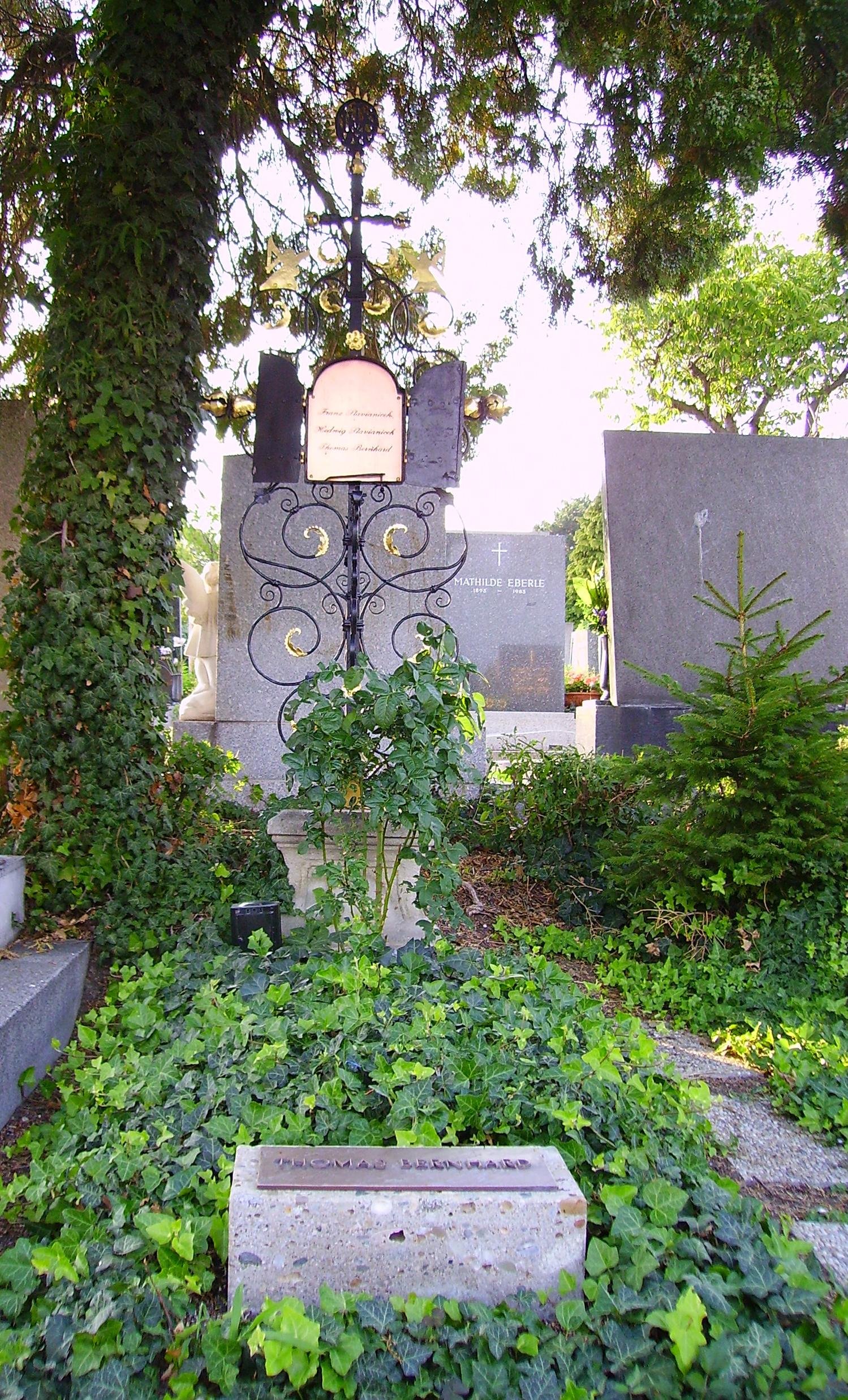 Grave of Thomas Bernhard, Vienna, Grinzing cemetery